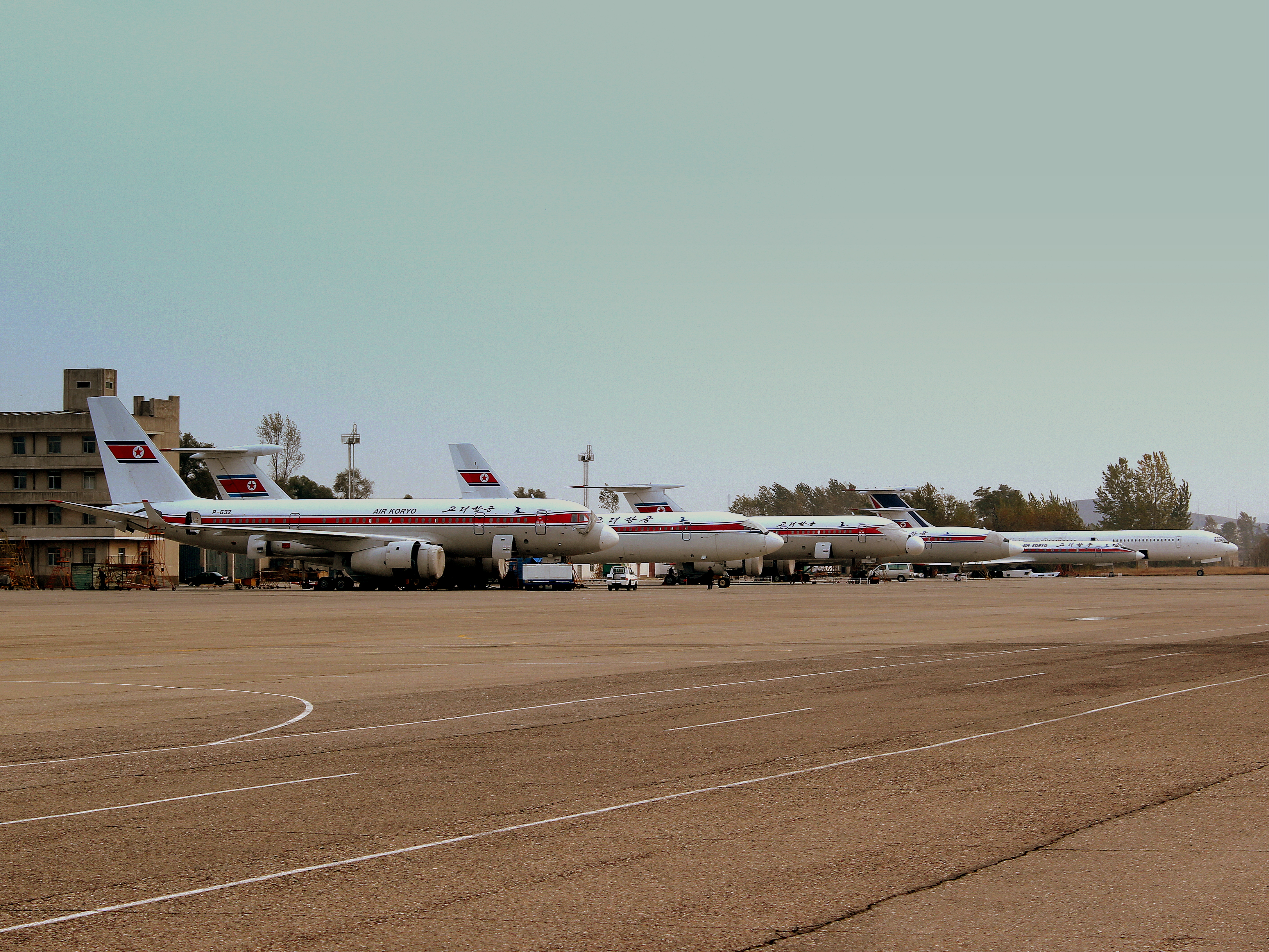 THE IL62 AT THE FAR END WAS DONATED BY CUBA,FORMELY OPERATED BY CUBANA IT IS NOW USED FOR SPARE PARTS FOR THE OTHER TWO IL62,S